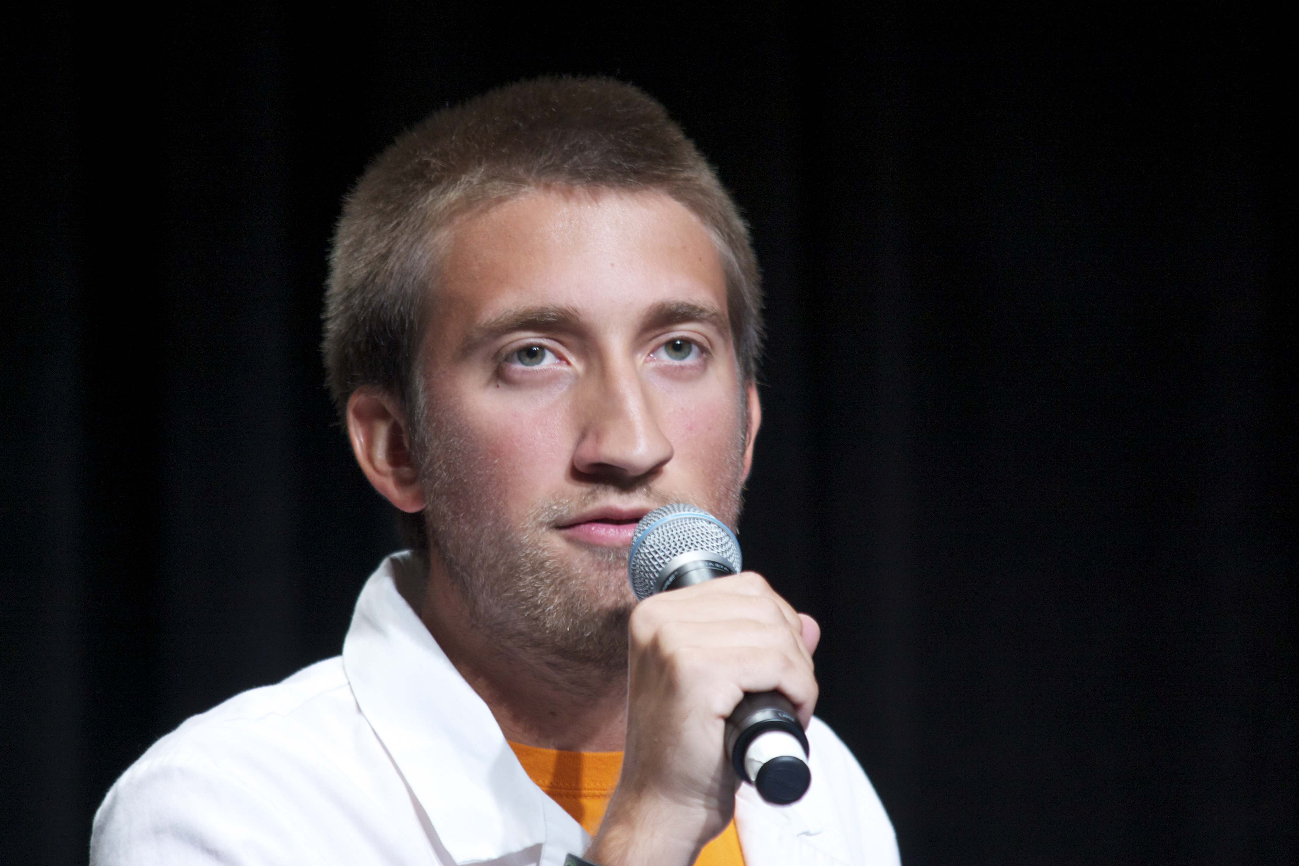 Gavin Free at RTX 2013, wearing his distinctive lab coat from The Slow Mo Guys